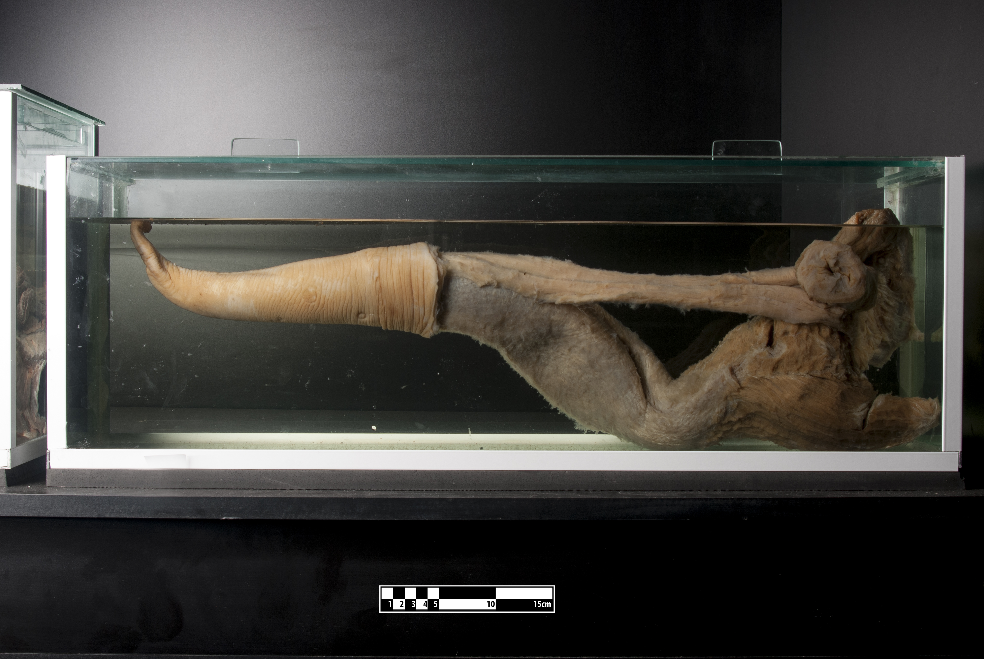 Whale penis. Balaenoptera acutorostrata Technique of glycerination on display at the Museum of Veterinary Anatomy, FMVZ USP. This file was published as the result of a partnership between the Museum of Veterinary Anatomy FMVZ USP, the RIDC NeuroMat and the Wikimedia Community User Group Brasil. This GLAM project is reported. Photography: Museum of Veterinary Anatomy FMVZ USP. Author: Wagner Souza e Silva.